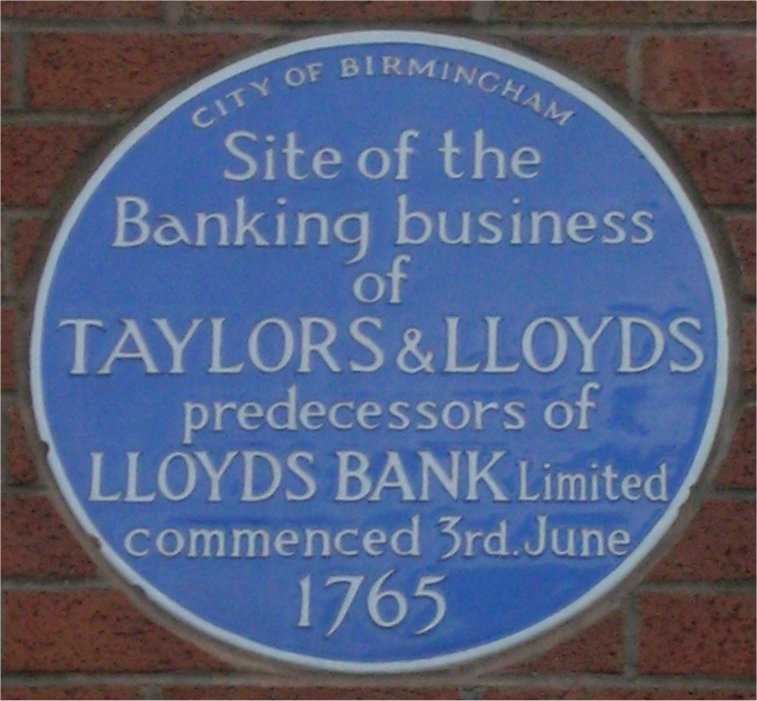 Blue plaque on the site of the first bank in Birmingham, England, created by John Taylor and Sampson Lloyd in 1765. Embedded in the wall of a new shop in High Street. Photographed by me 5 December 2006. Oosoom